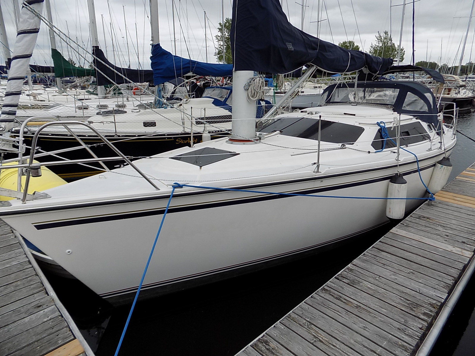 A Hunter Vision 32 sailboat named the Saint of Circumstance.